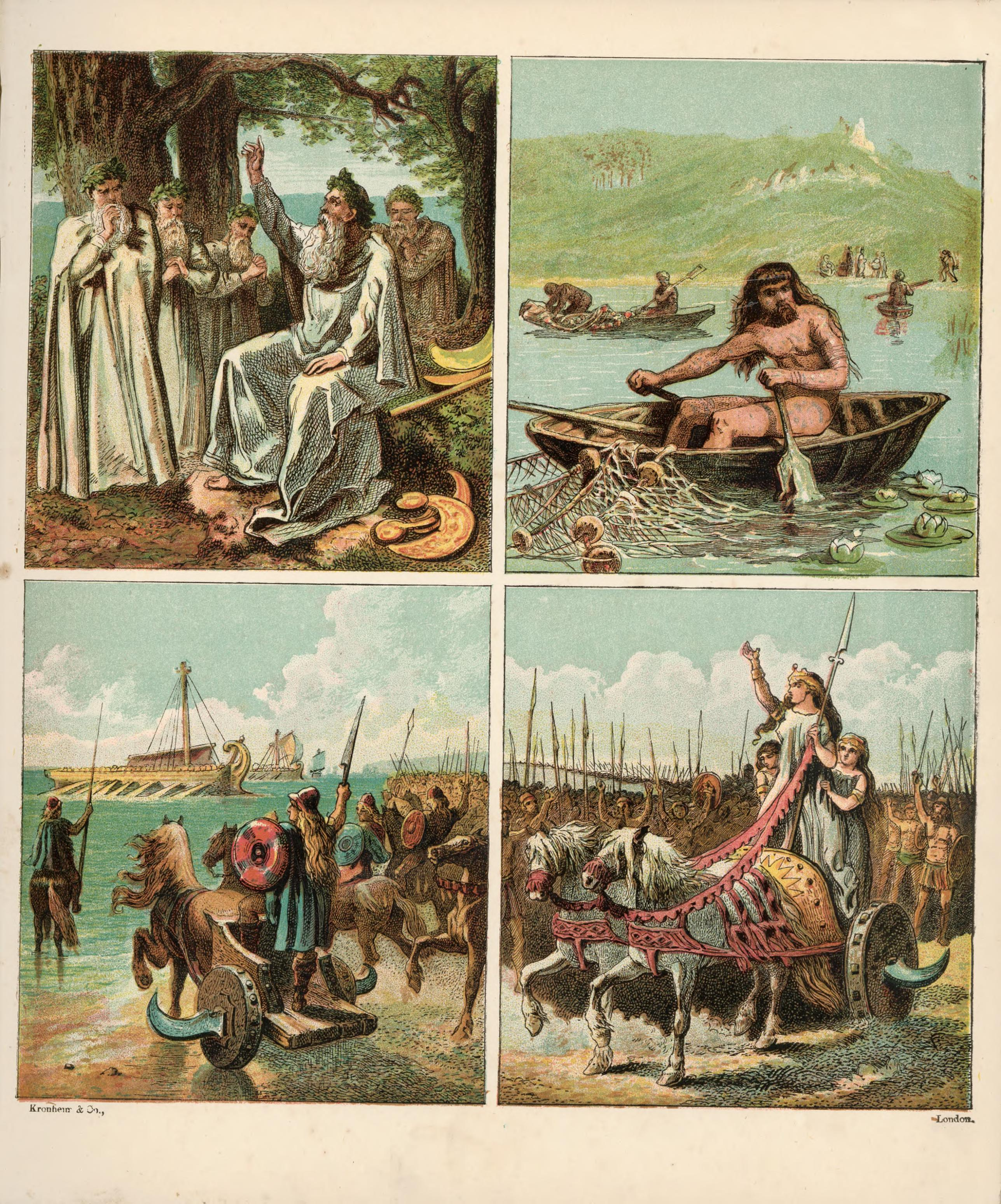 Plates I to IV in Pictures of English History